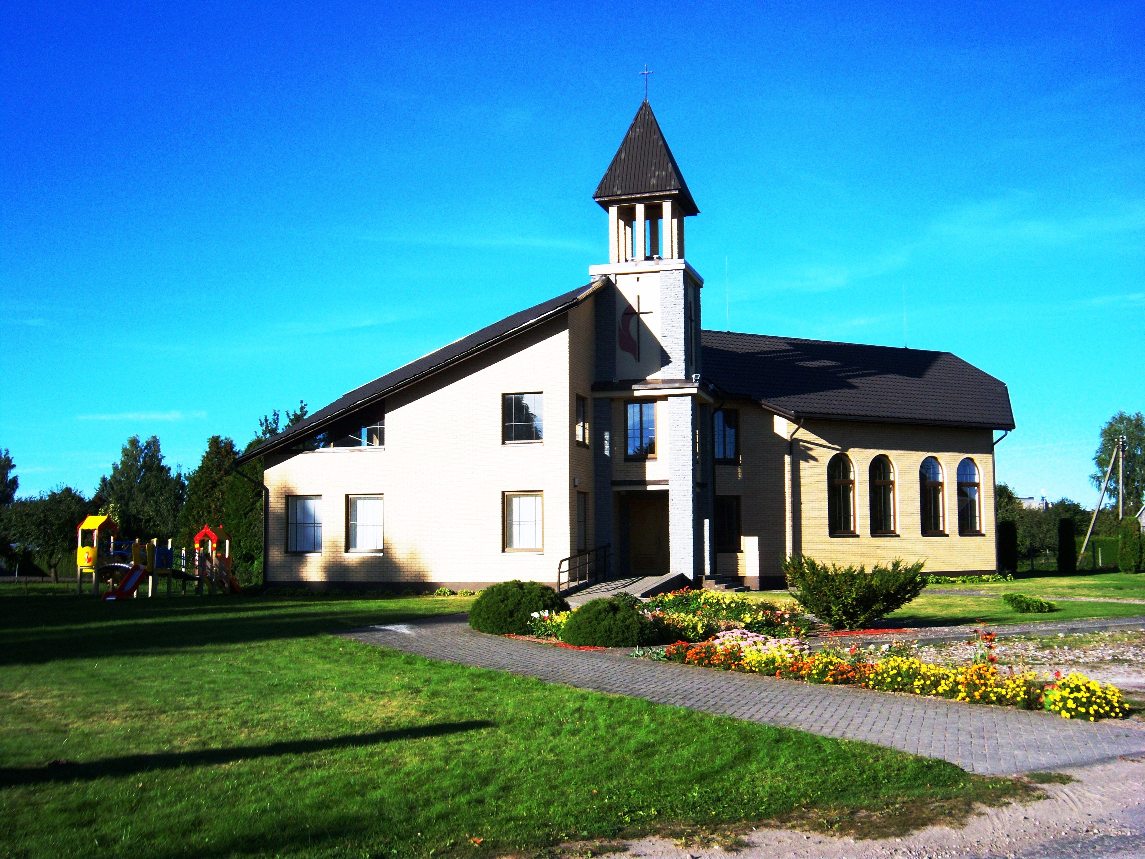 Methodist church in Pilviškiai, 1 S. Nėries Street, Vilkaviškis District, Lithuania